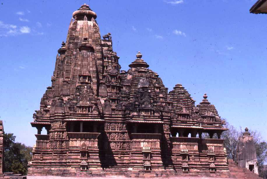 Visvanath Temple, Khajuraho, Madhya Pradesh, India